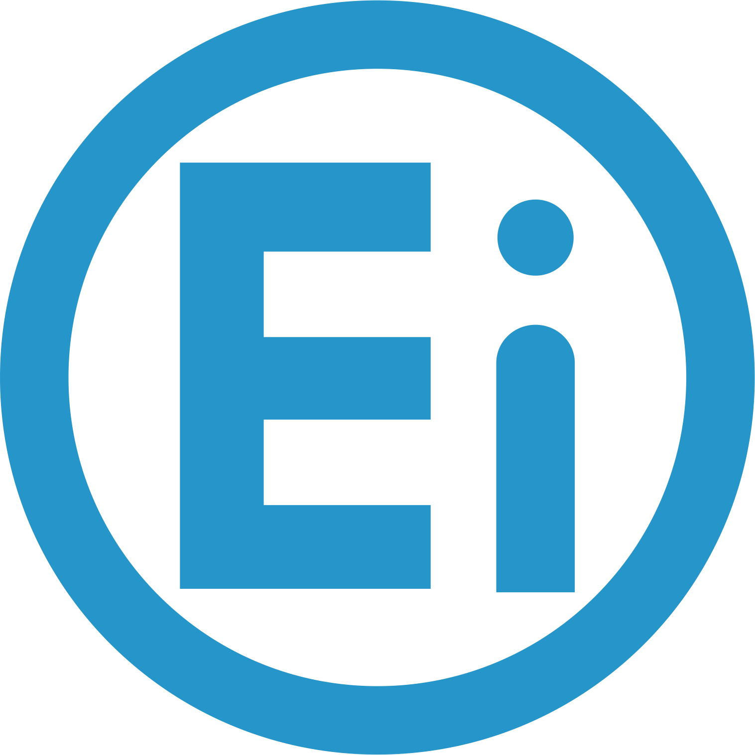 Ei Niš logo